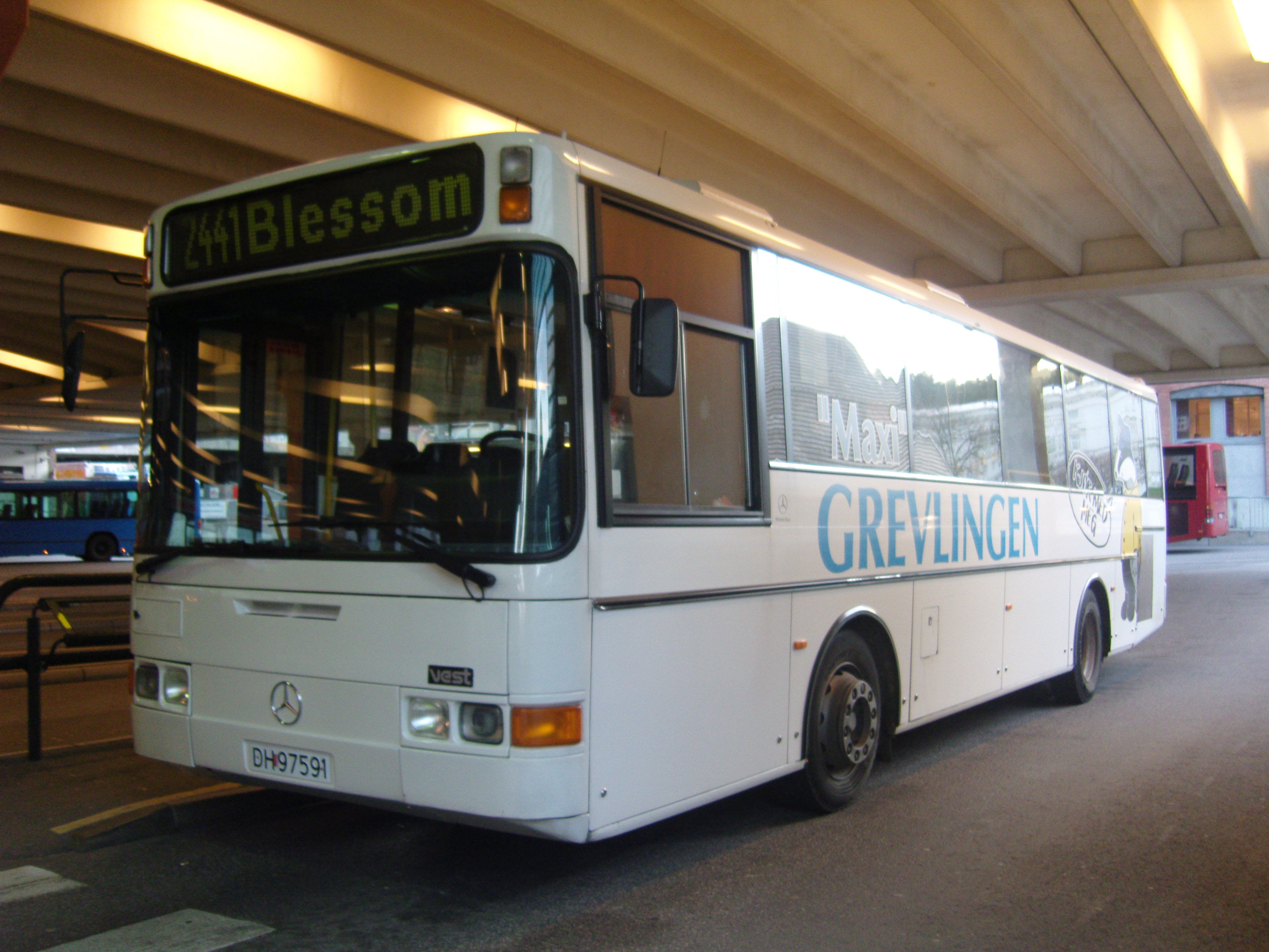 Kind of city bus in Sarpsborg, called "Grevlingen" (literary "the Badger").